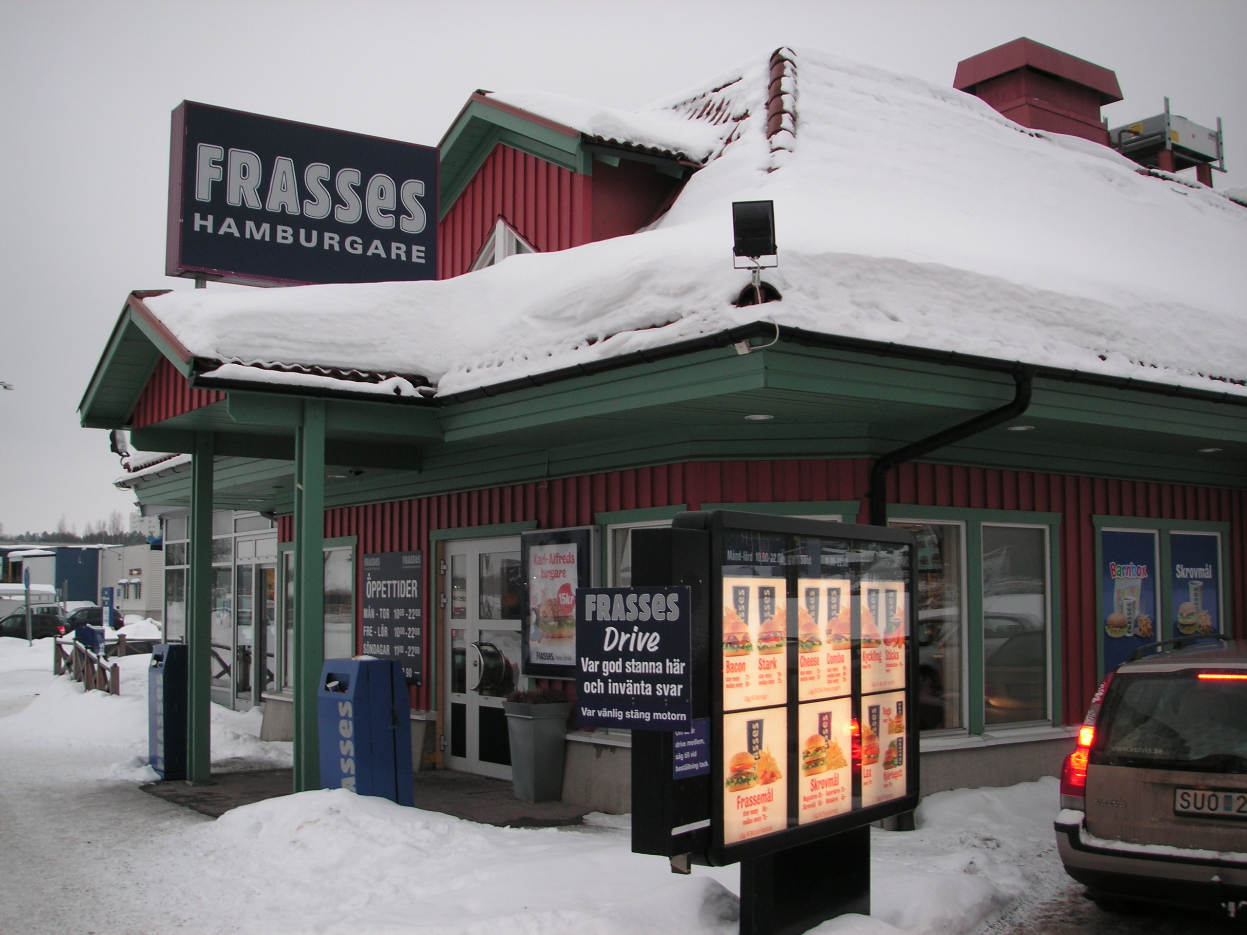 Frasses hamburger restaurant in Umeå, Sweden.